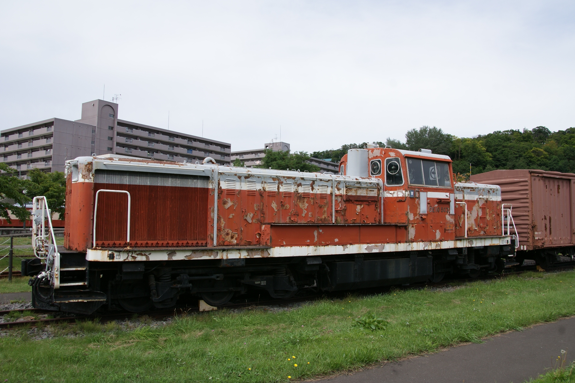 Preserved JNR Class DE10 diesel locomotive DE10 503 at the Otaru Museum in Otaru, Hokkaido, Japan